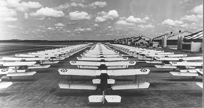 These Consolidated PT-11s [not PT-13 Stearmans] lined up at Randolph Field were the principal trainers used by the United States Army Air Corps in primary flight training in the 1920s and 1930s